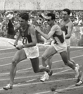 Edvin Ozolin, Livio Berruti, Salvatore Giannone at the 1960 Olympics